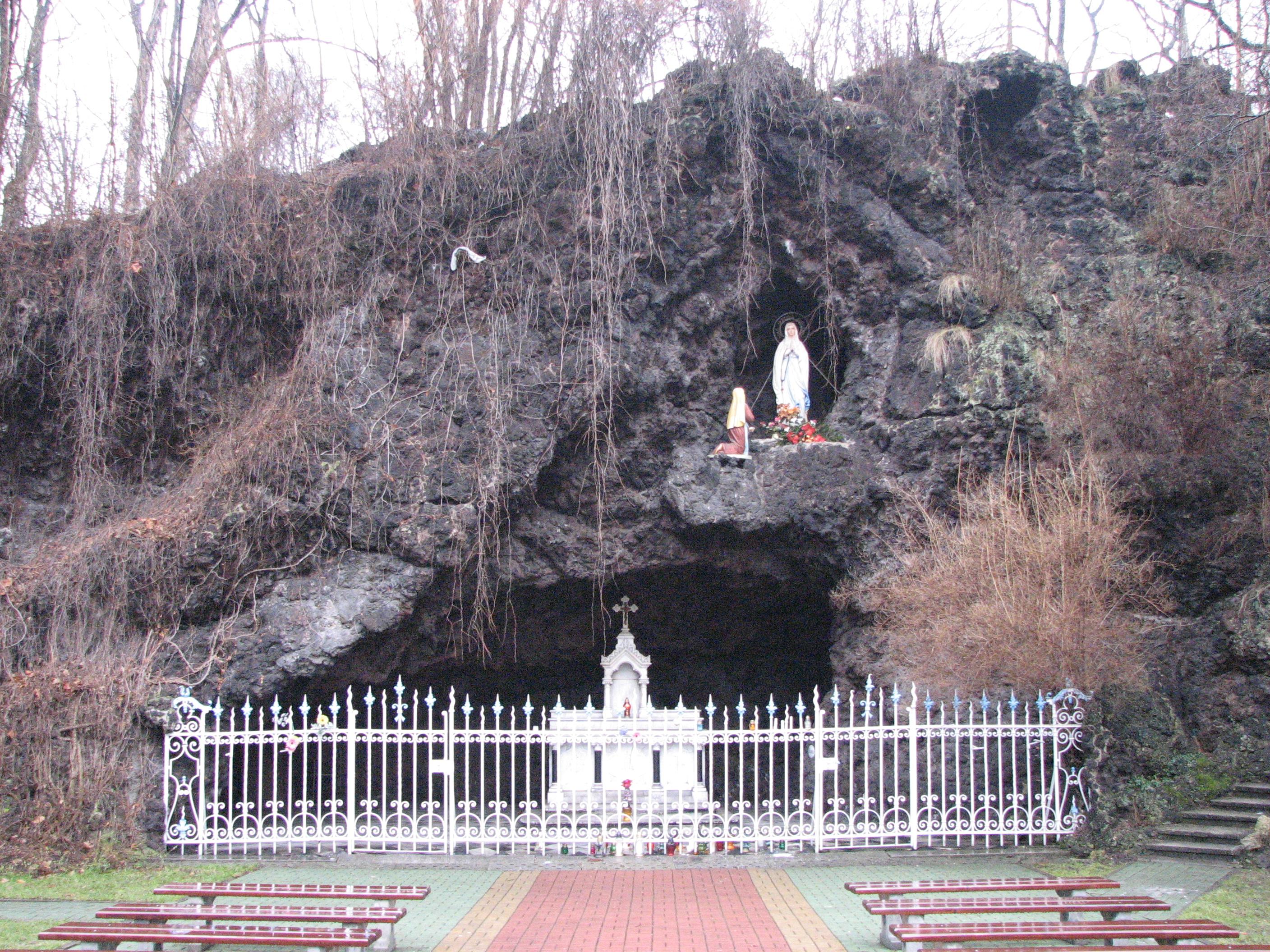 A copy of the Lourdes Grotto in Katowice Panewniki. Built in 1905.